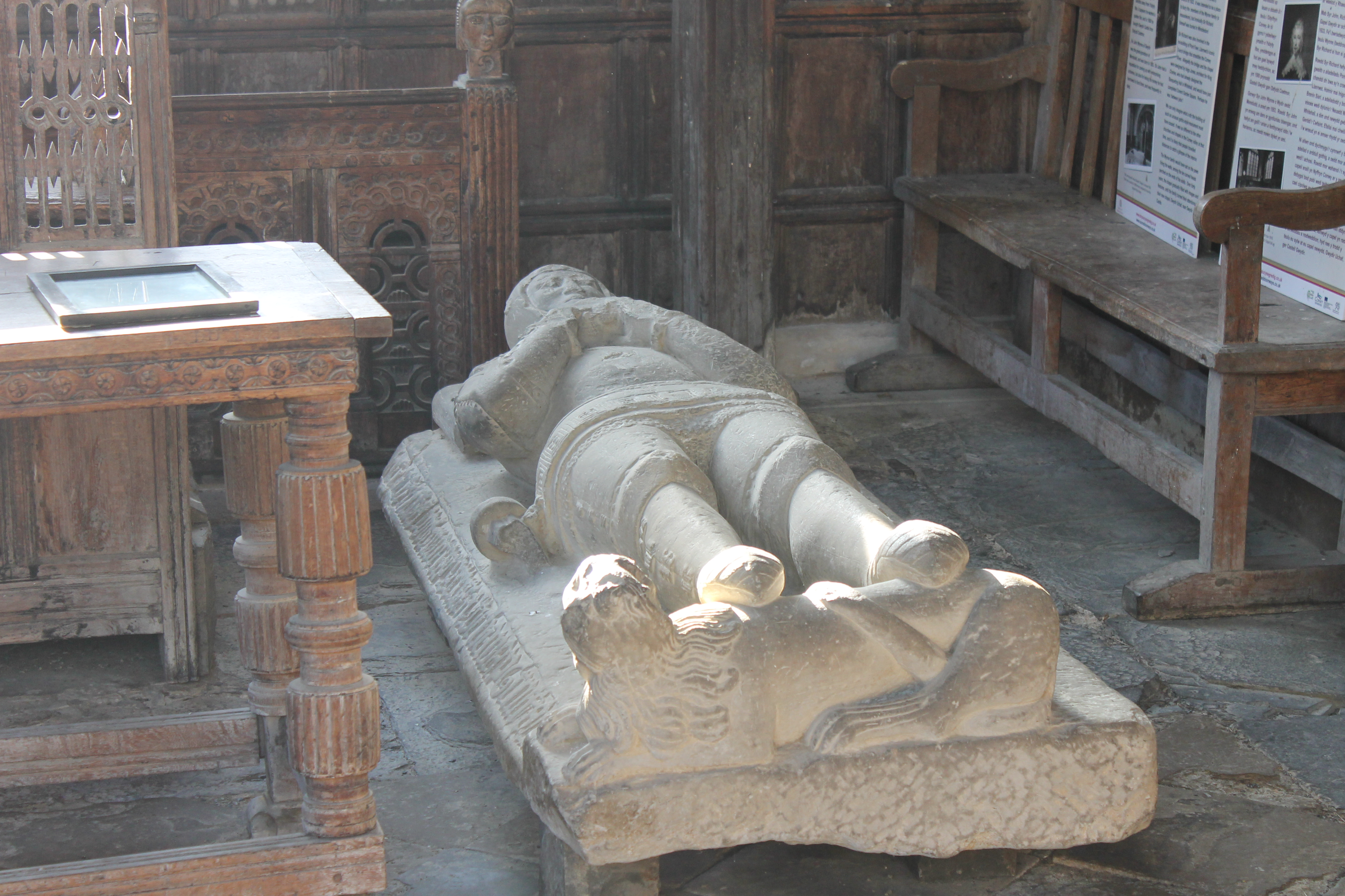 Hywel Coetmor, general to Owain Glyndŵr. Gwydir Chapel, St Crwst Church, Llanrwst, Conwy Borough County, Cymru, Wales